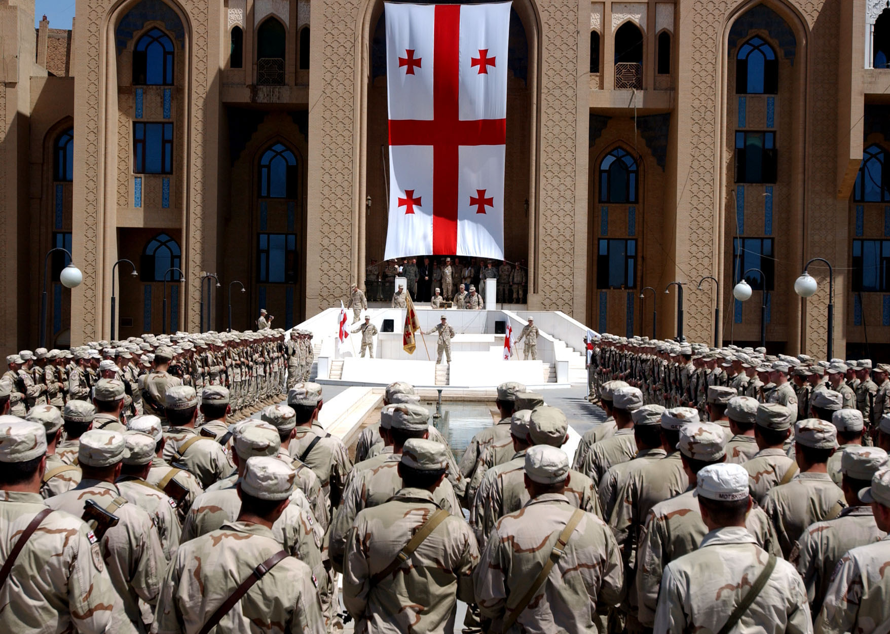 A formation of Georgian Army soldiers from the 22nd Light Infantry Battalion, 2nd Brigade, listen to Capt. Lasha Karmazanashvili, commander, 22nd Lt. Inf. Bn., during a Georgian Independence Day celebration May 26 in Baghdad, Iraq.